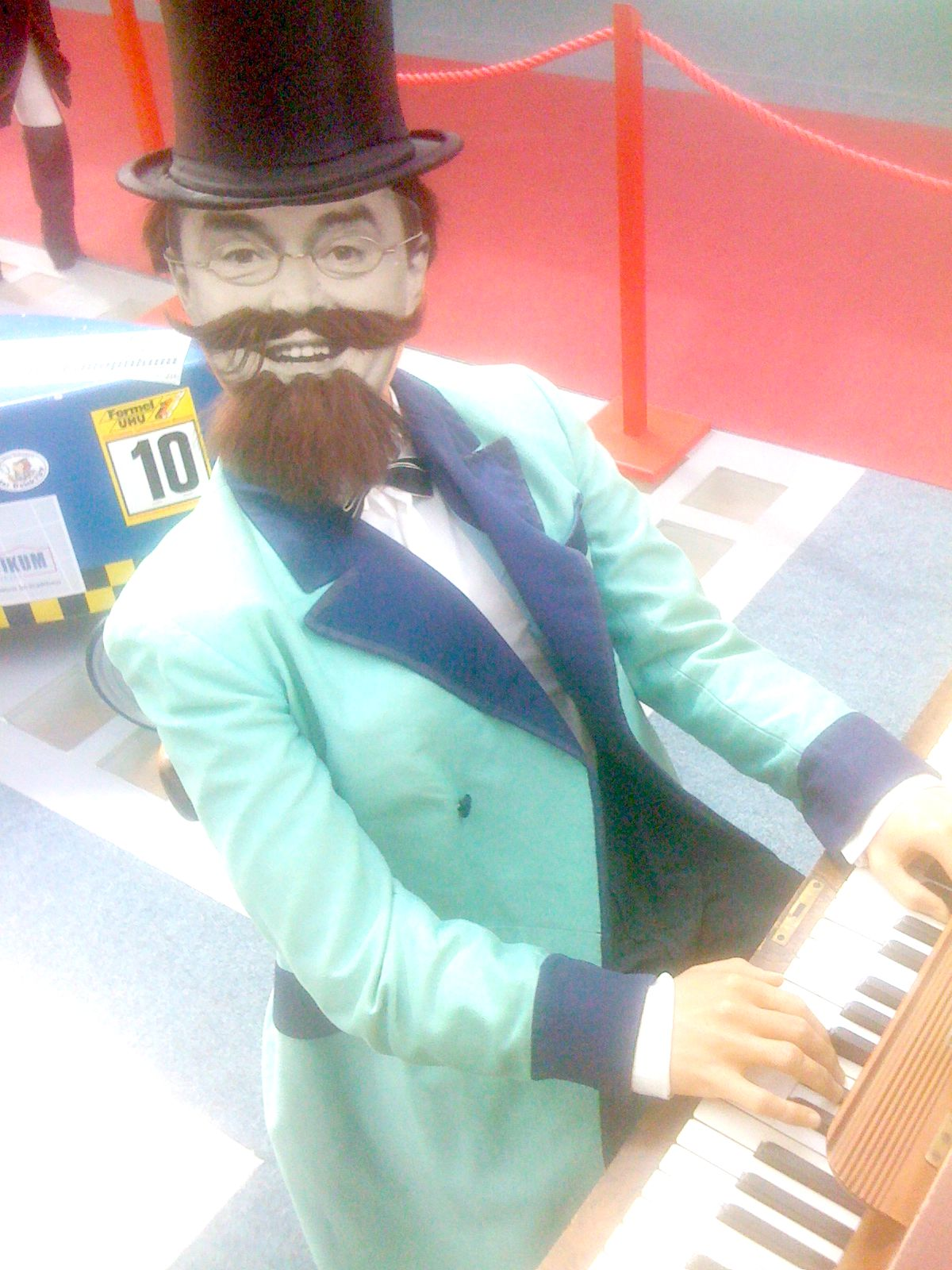 Fritz Schulz-Reichel im Panoptikum Mannheim.